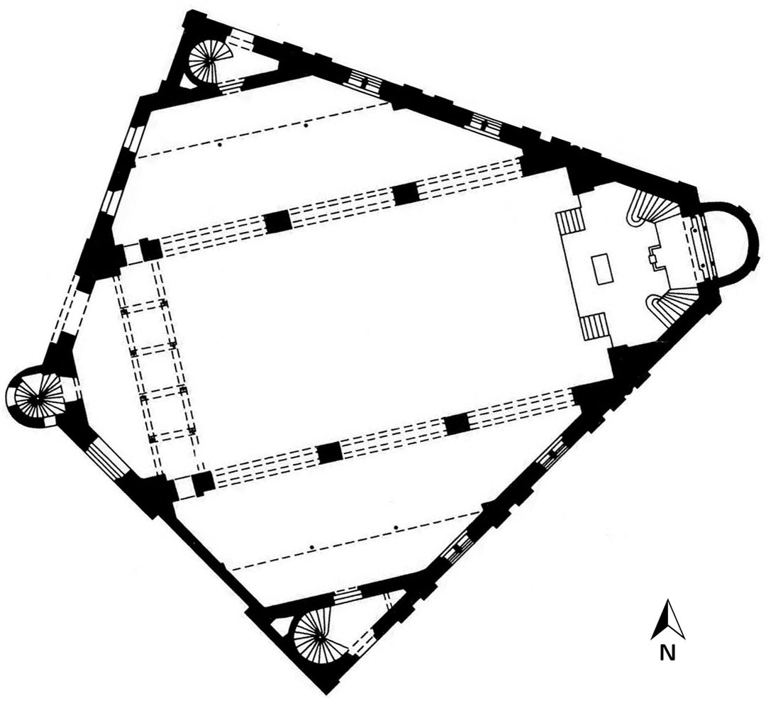 Blueprint of the Old synagogue of Leipzig, destroyed by the nazis in 1938. Image dating from 1850.